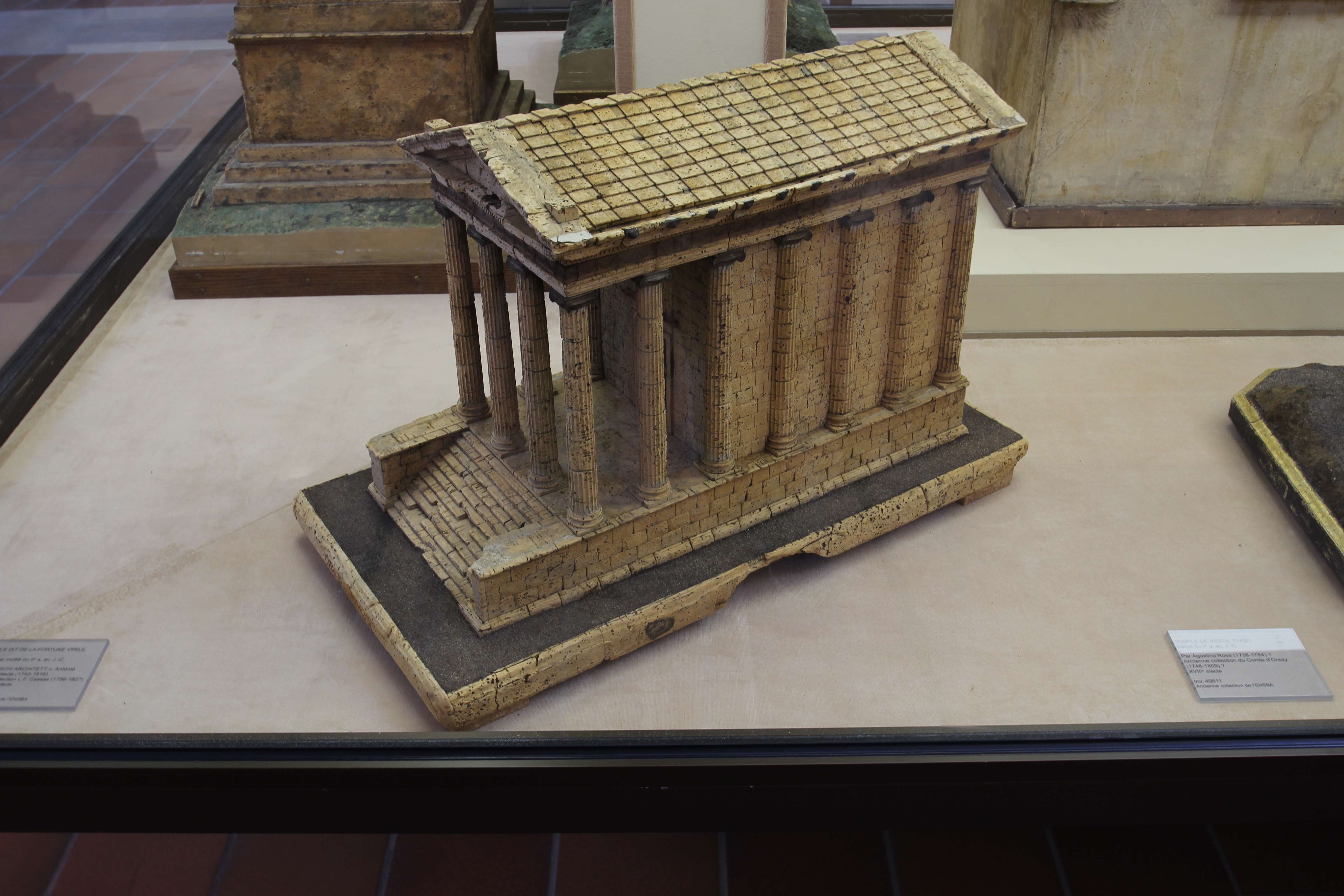 Collections of the Comparative archeology room at the National Archaeological Museum in Saint-Germain-en-Laye, France.